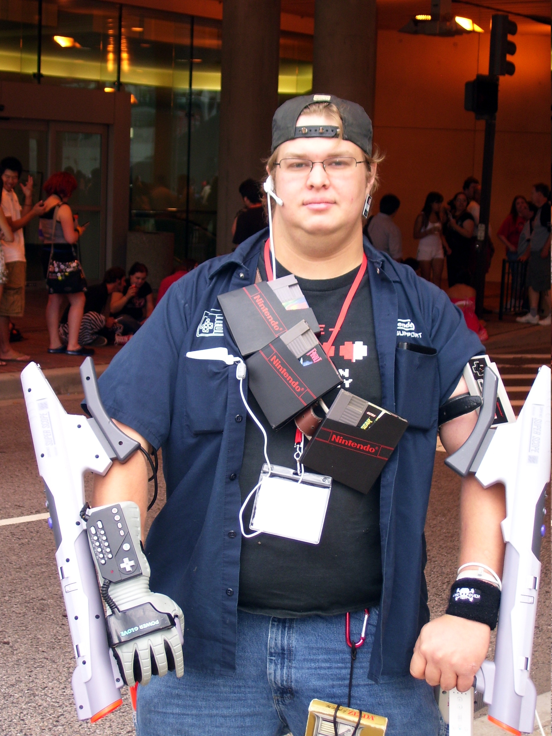 Alternately, "NES warrior", though the superscope was SNES. Old-school Nintendo warrior, at the very least.